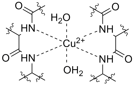 structure of the copper complex in biuret test